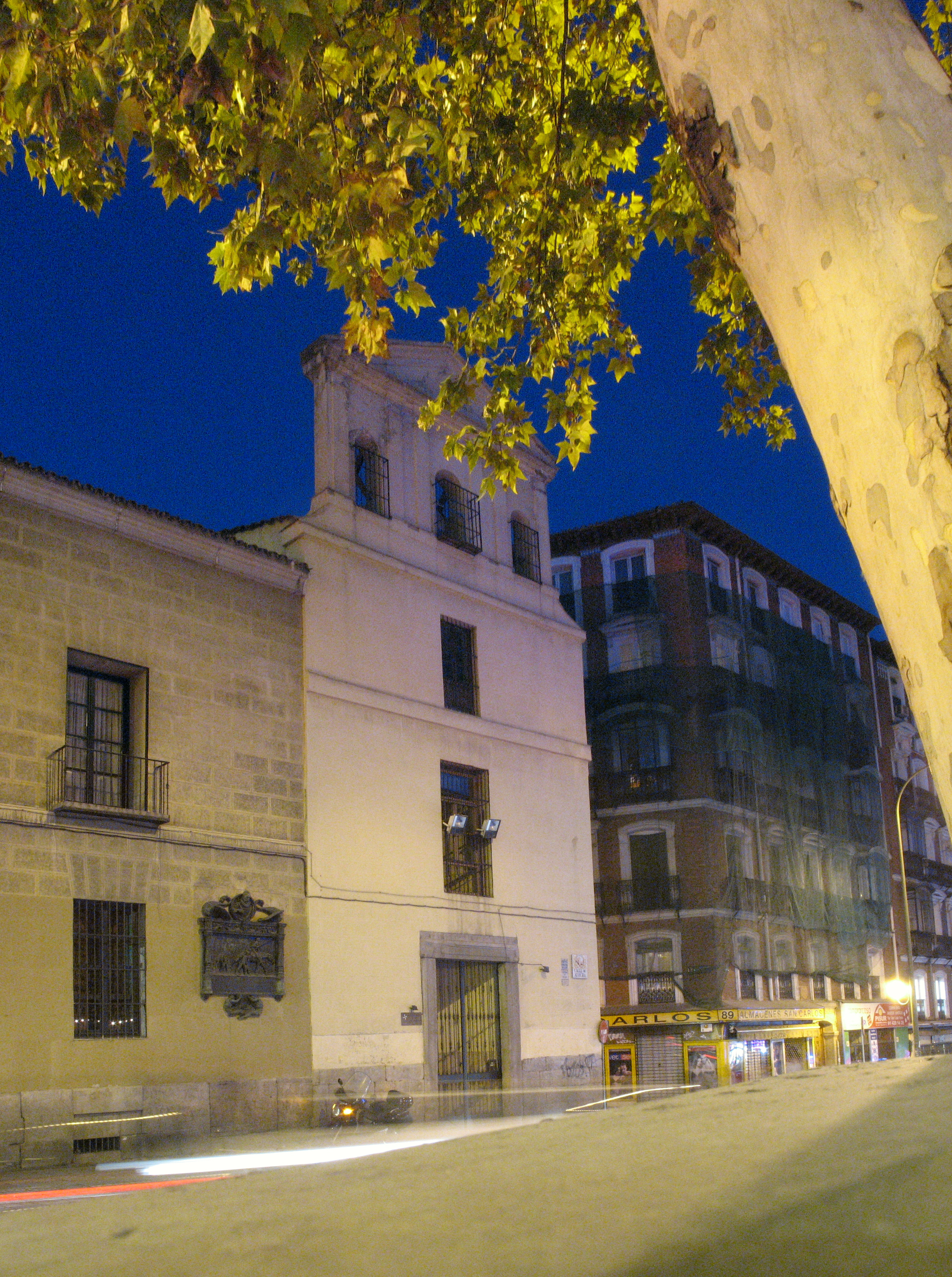 Data de 1592, incendiado durante la Guerra Civil,hoy Iglesia del Santísimo Cristo de la Fe.